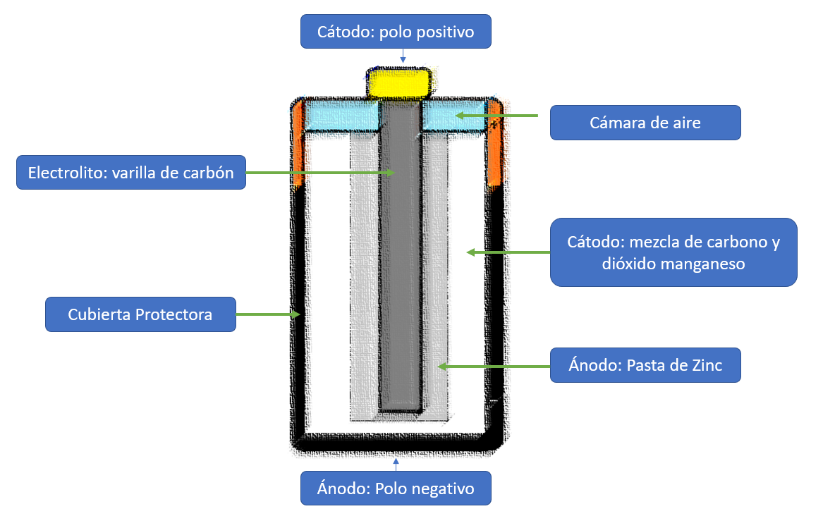 parts of bateri